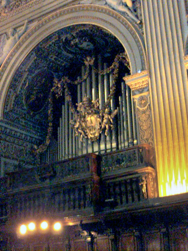 j